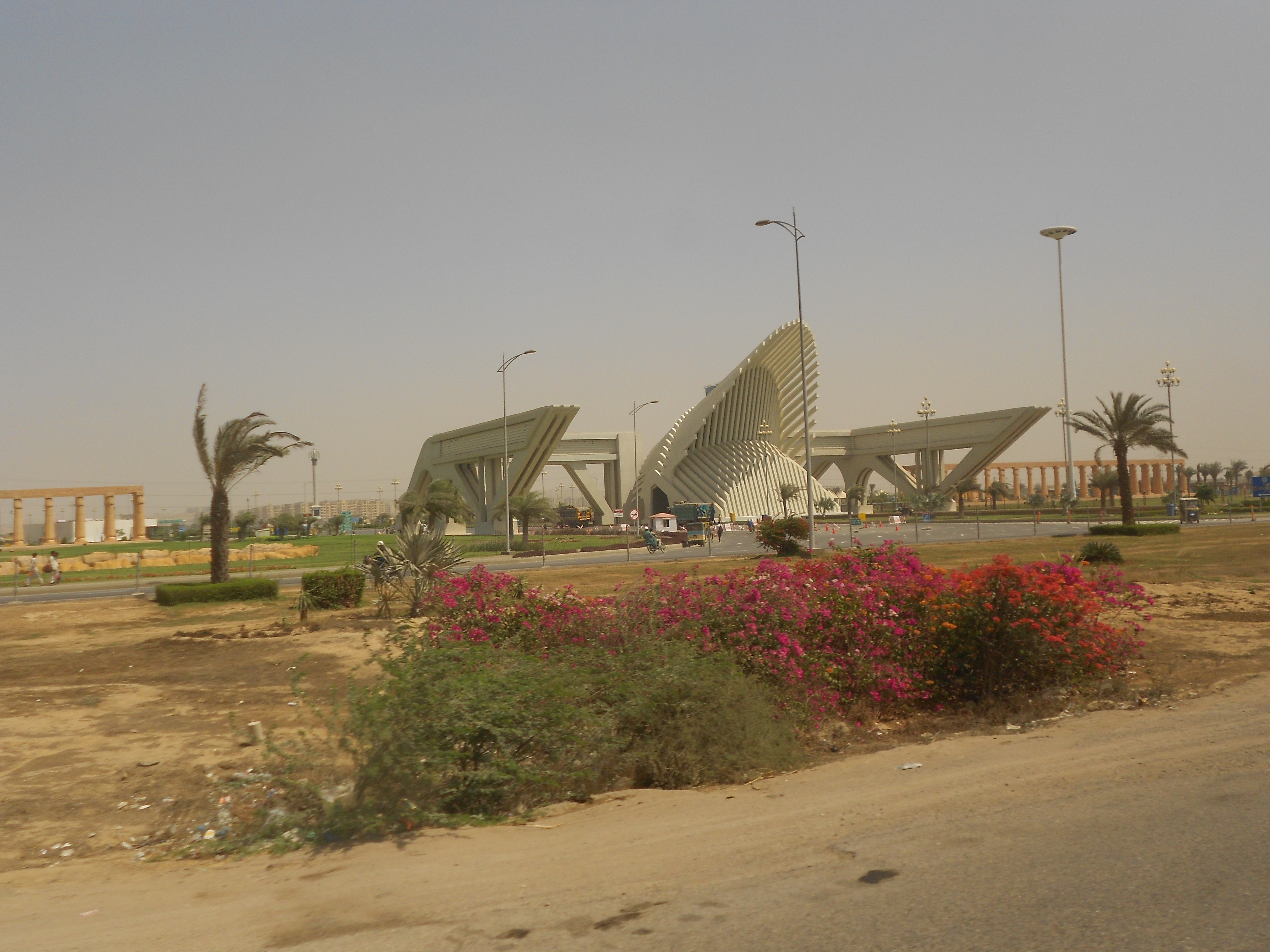 Bahria Town Karachi main gate